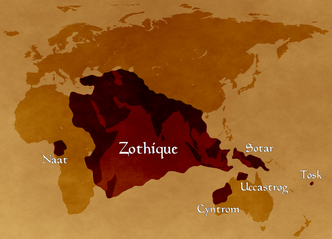 The approximate location of the fictional continent of Zothique according to Clark Ashton Smith.